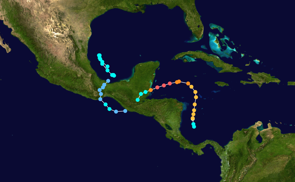 Hurricane Hattie-Simone-Inga (1961) track. Uses the color scheme from the Saffir-Simpson Hurricane Scale.